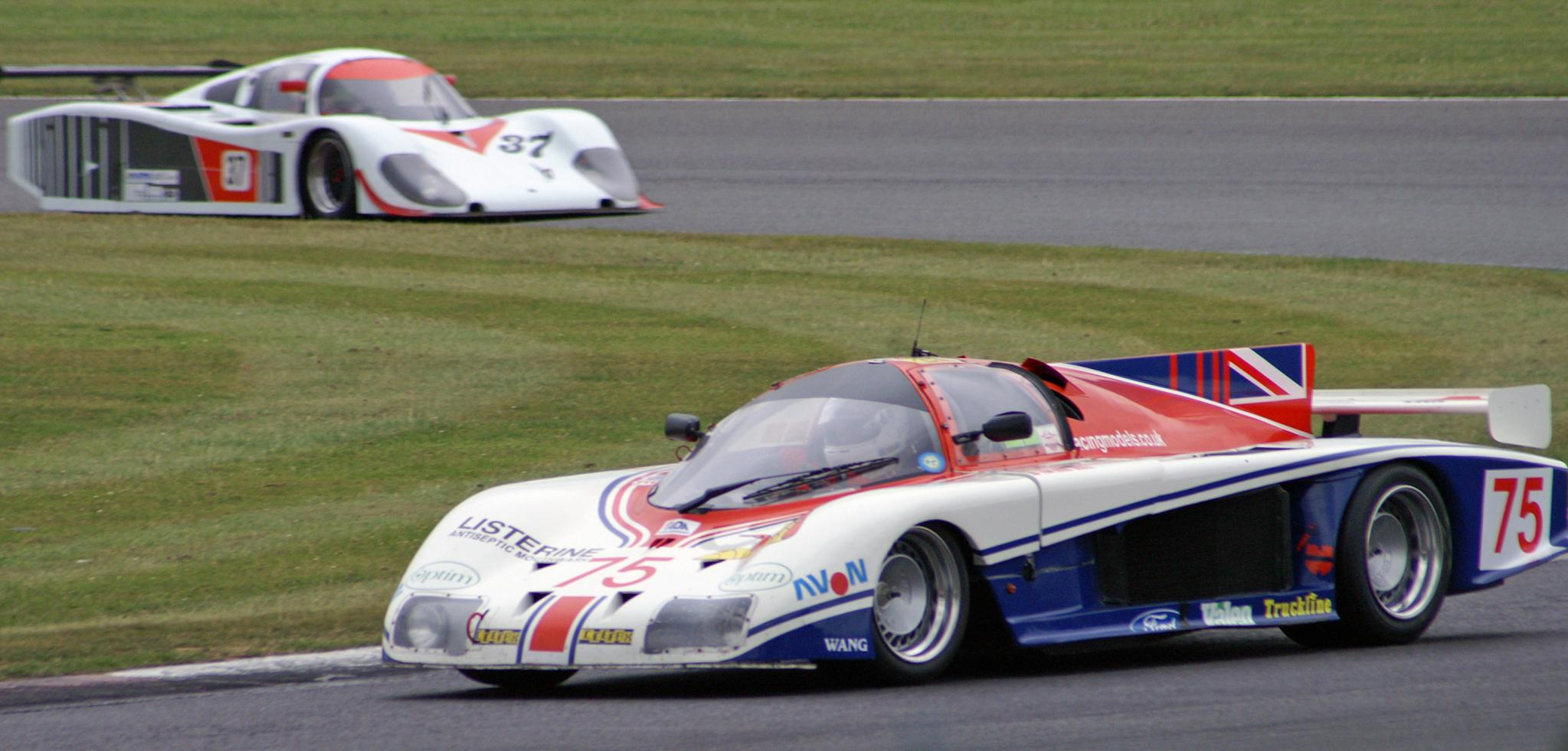 A Gebhardt JC843 powered by Ford Cosworth DFL V8/90° 3300 cc at Silverstone Classic 2009